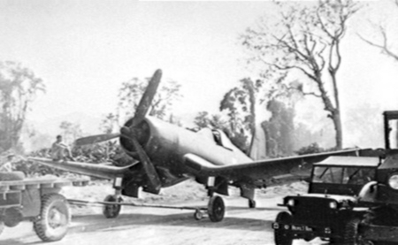 A Vought F4U-1 Corsair from No. 14 Squadron, Royal New Zealand Air Force, on Bougainville island, 1944.